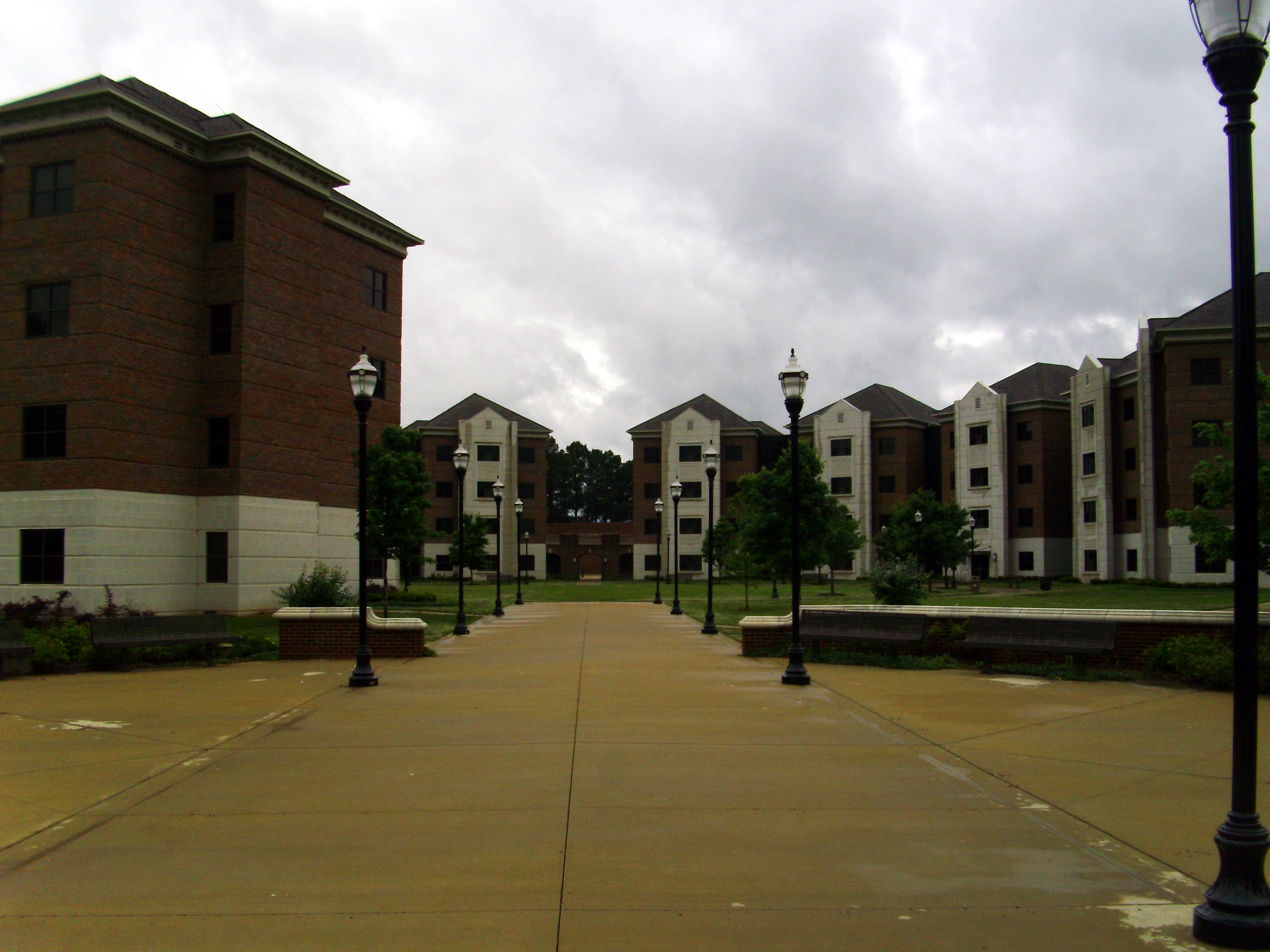 Ouachita Baptist University campus